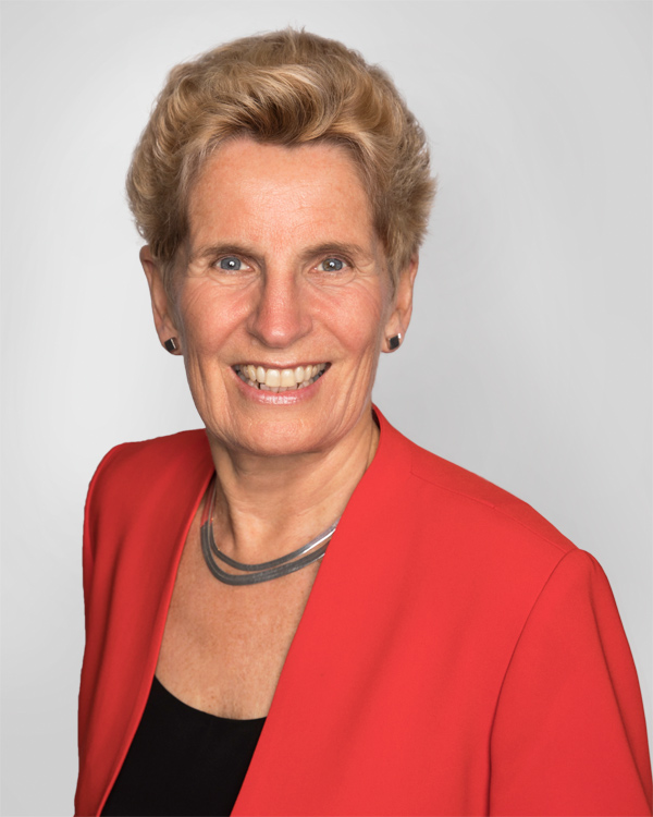 Official headshot of the Premier of Ontario, Kathleen Wynne who is wearing a red blazer and smiling.